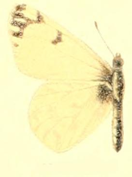 Plate from The Macrolepidoptera of the World. Vol. 5: Euchloe ausonides